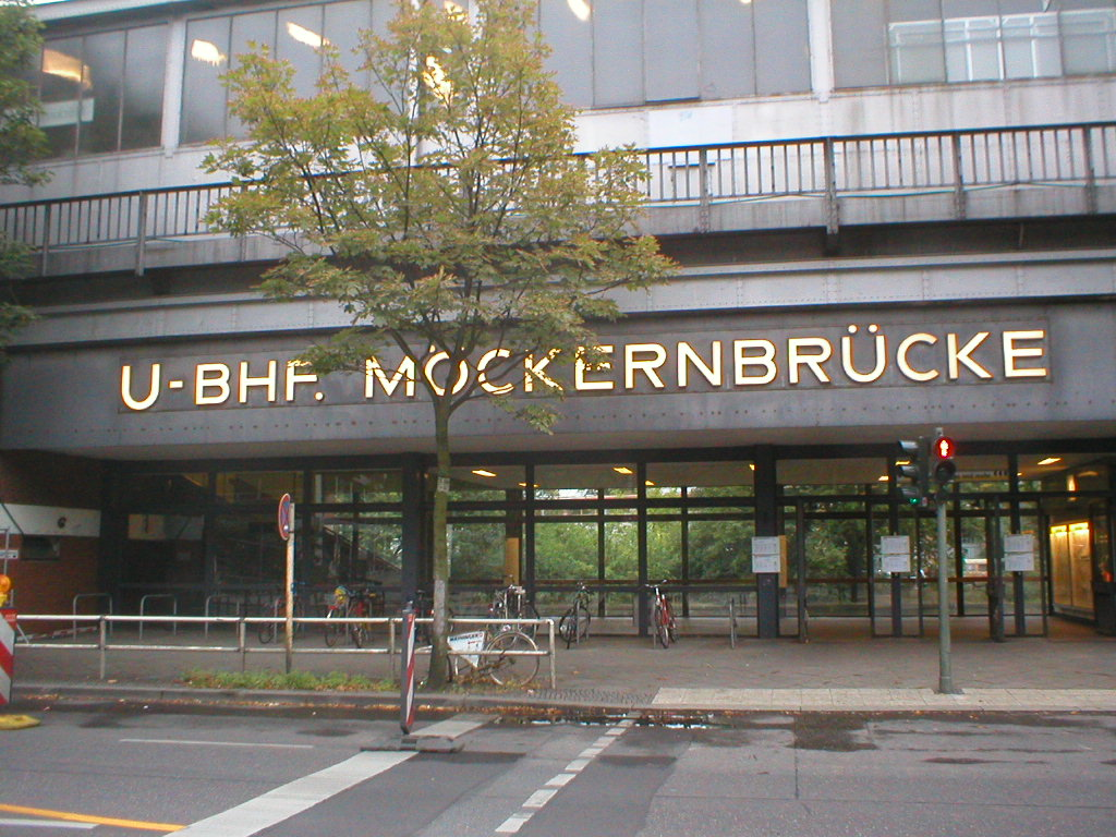 entrance to the underground station Möckernbrücke, lines u1 and u7, of the Berlin U-Bahn, Germany